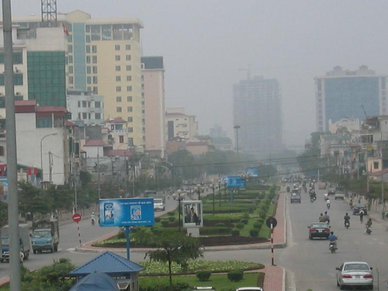 Busy avenue in Hanoi.